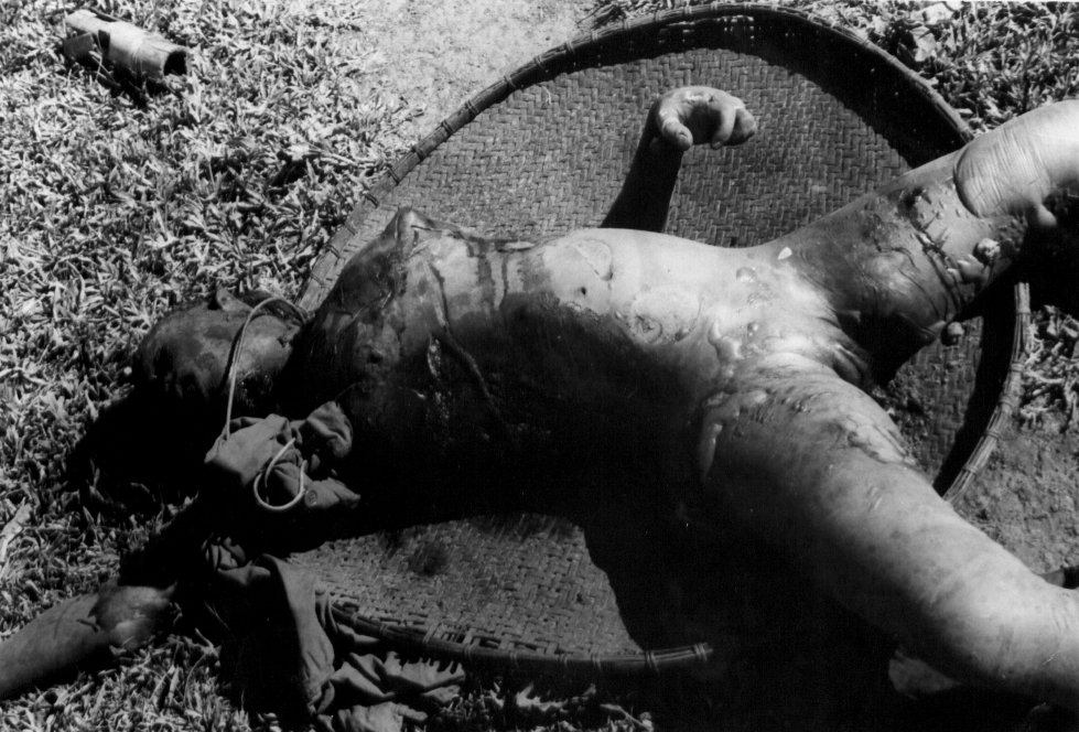 A female corpse at Dak Son. Caption reads, "NVA pays a visit, Dak Son."